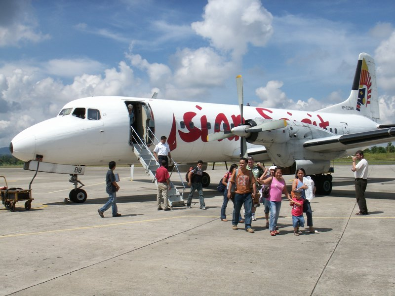 This photograph is of an Asian Spirit NAMC YS-11 in the Cagayan De Oro airport in the Philippines. This airplane was built by NAMC (Nihon Aircraft Manufacturing Company, JAPAN) and appeared to be in Japanese service prior to its usage by Asian Spirit. All the signs on the airplane were previously in Japanese.